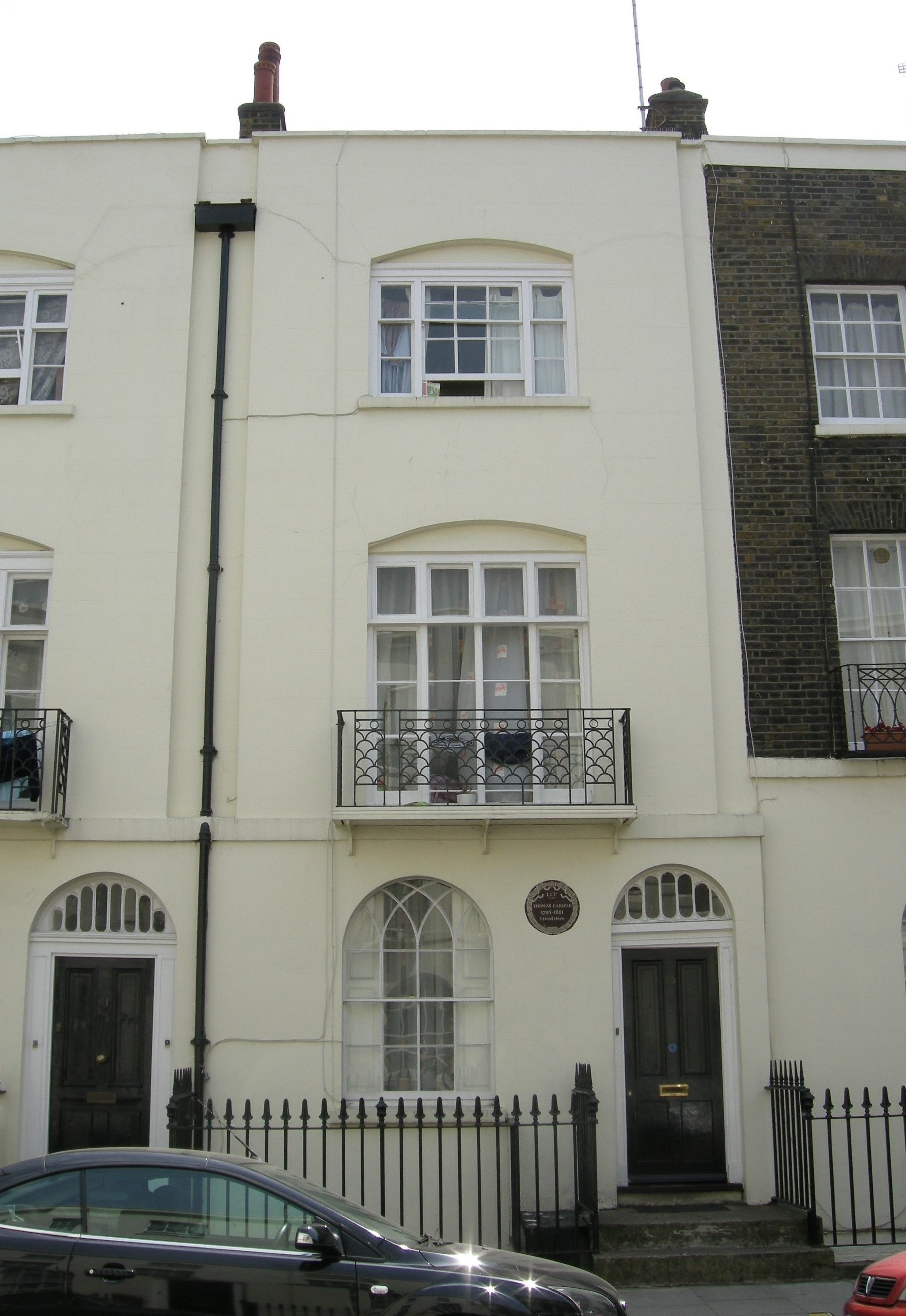 No 33 (previously no 4) Ampton Street, King's Cross, London WC1, marked with a London County Council plaque identifying it as the former home of Thomas Carlyle.